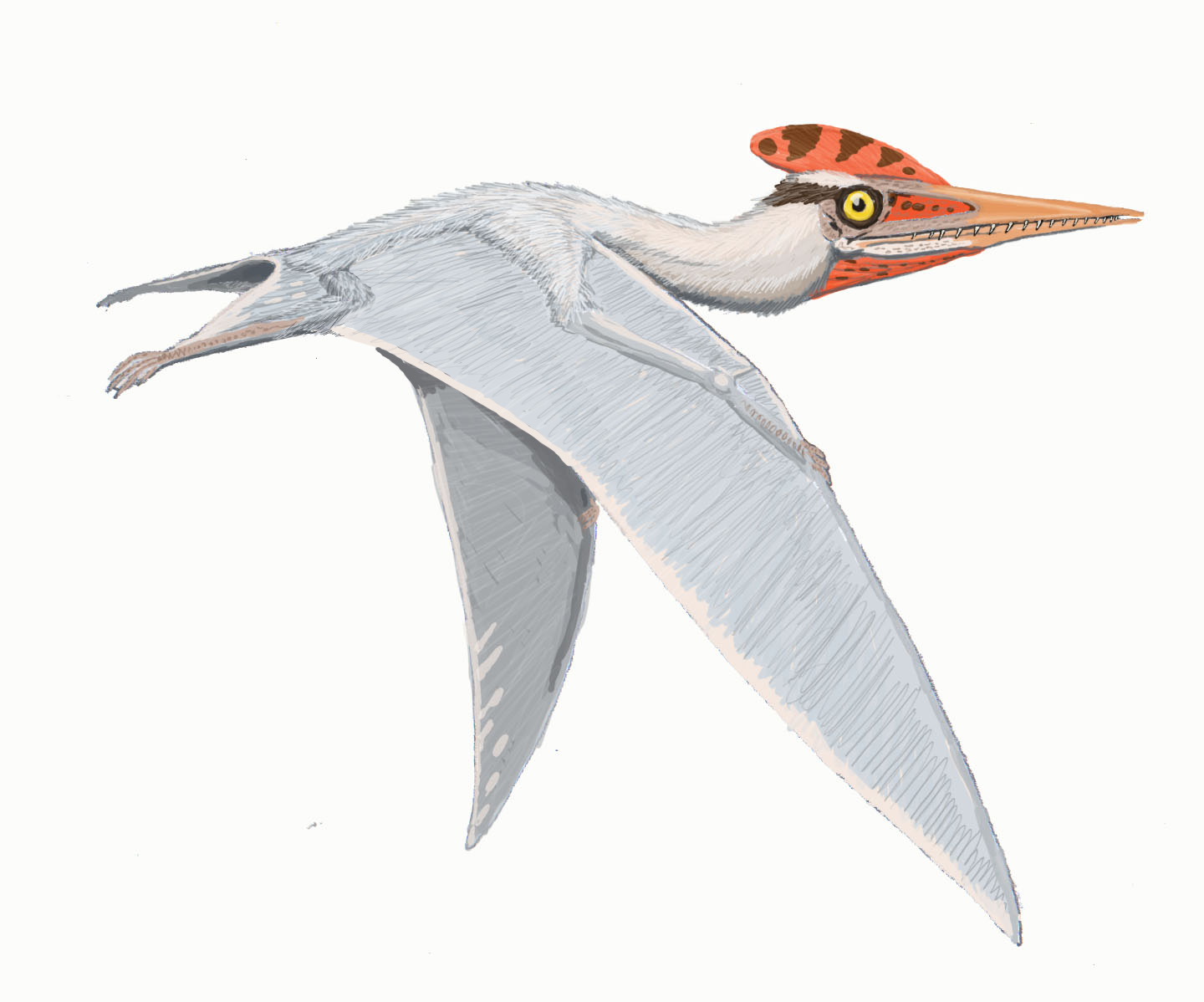 Altmuehlopterus rhamphastinus (formerly Germanodactylus)